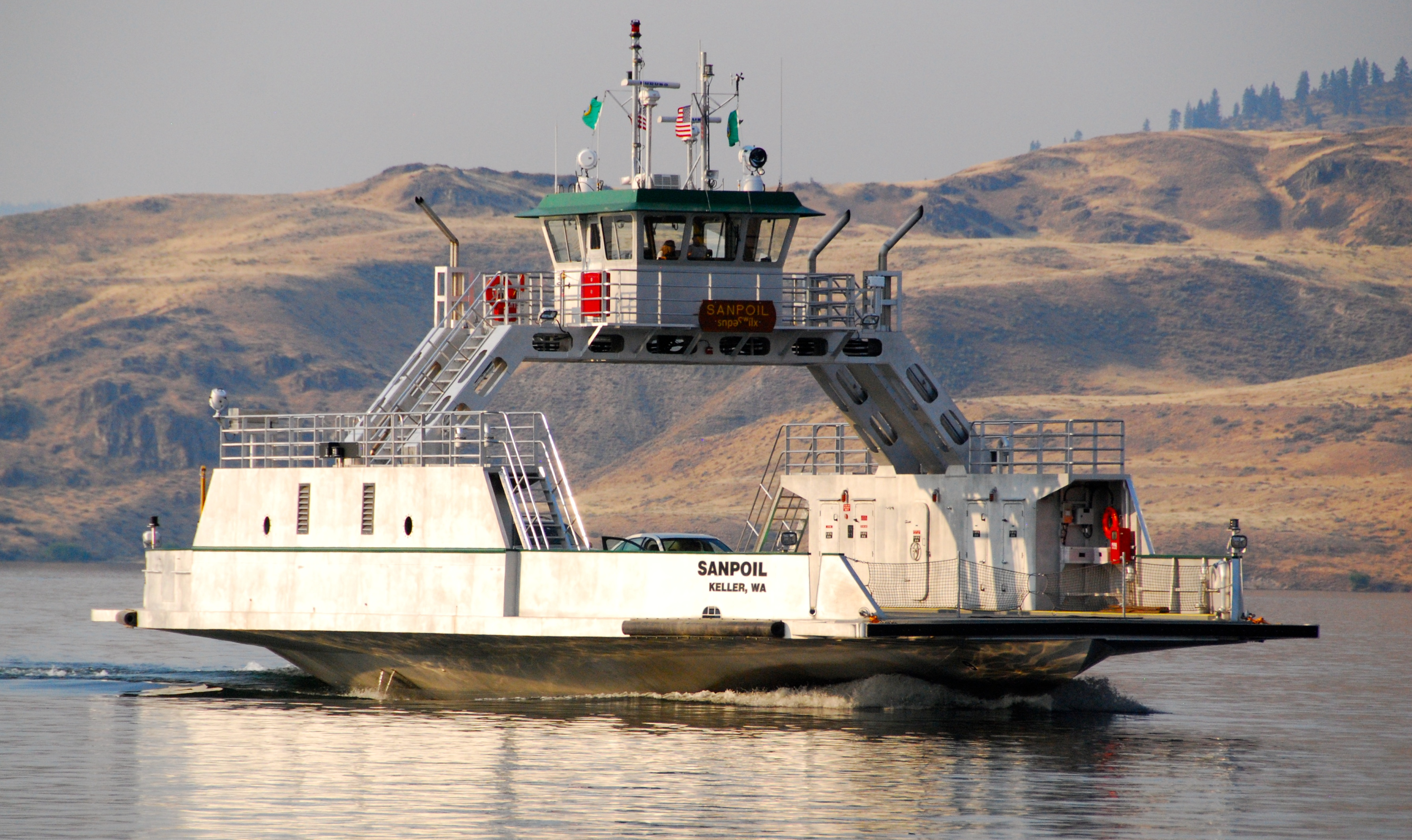 The M/V Sanpoil (Keller Ferry, Washington, United States).